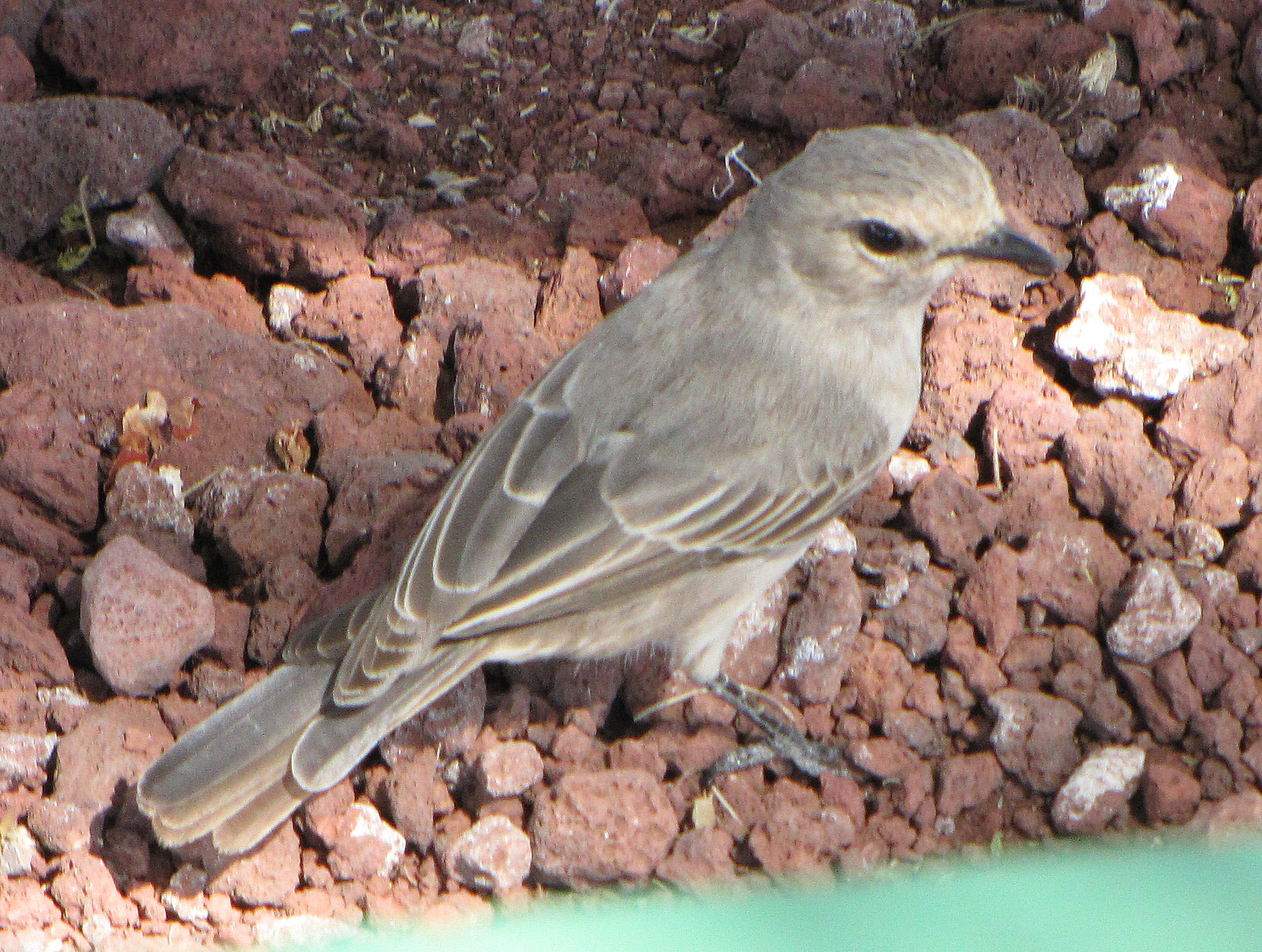 African Grey Flycatcher (Bradornis microrhynchus), Oldupai Gorge, Tanzania